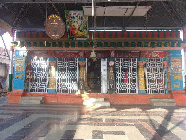 Ramasiddeshwar Temple